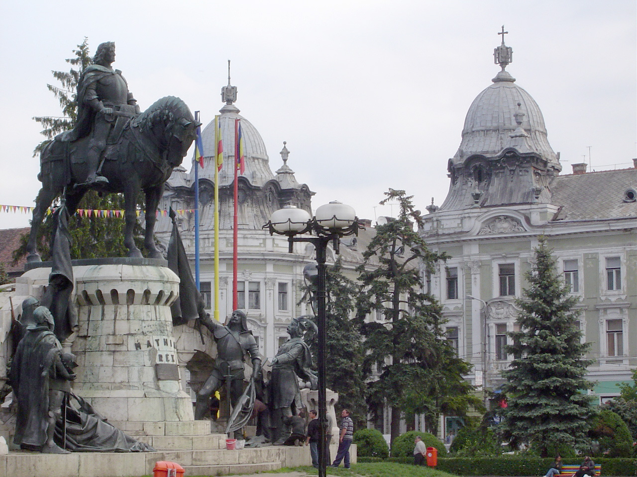 Romanian buildings in the city of Koloszvàr, Cluj in Romanian. (Northwest Transylvania)Cluj-Napoca (Kolozsvar-127)